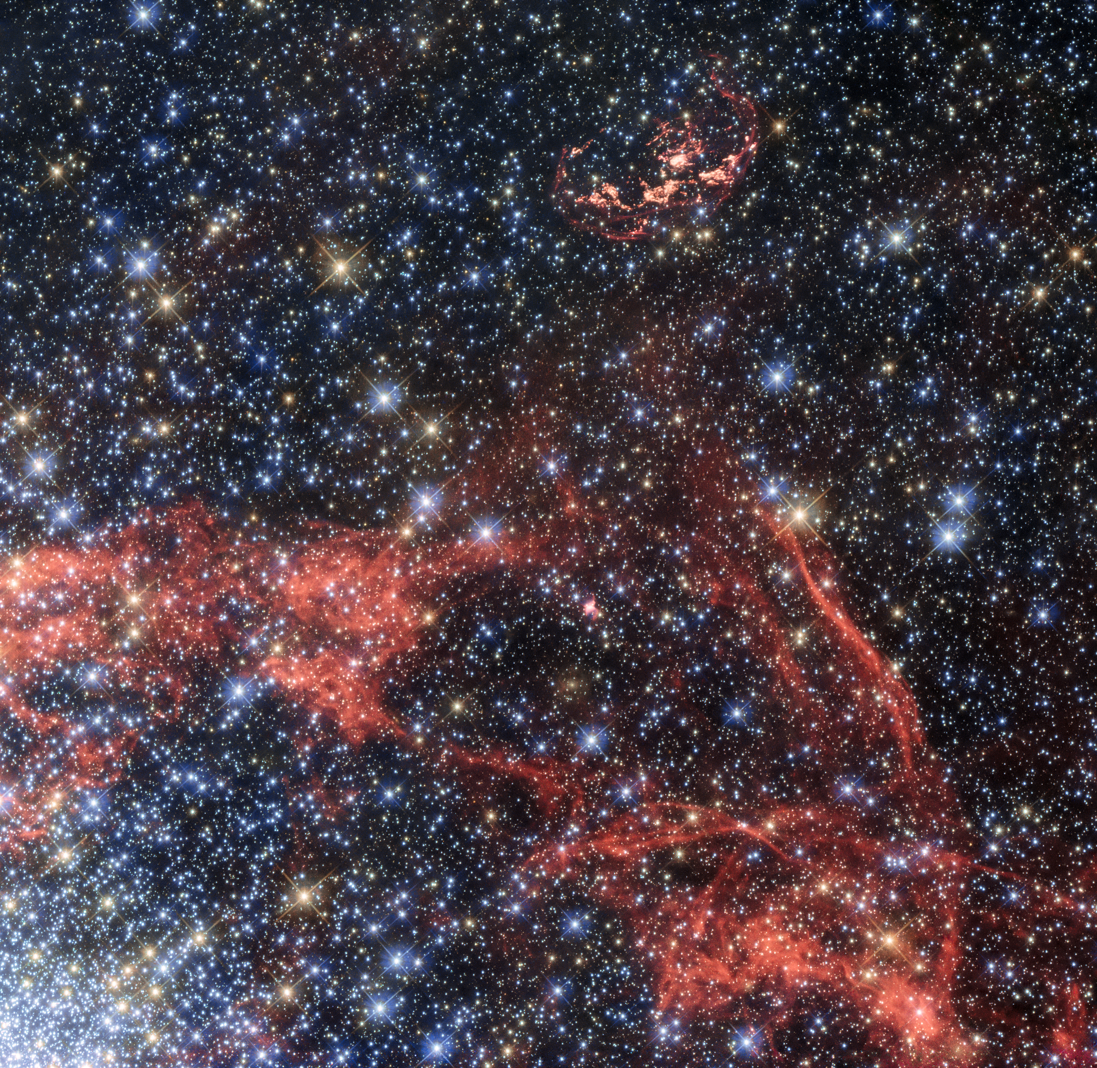 This image, taken with the NASA/ESA Hubble Space Telescope, shows the supernova remnant SNR 0509-68.7, also known as N103B (top of the image). N103B was a Type Ia supernova, located in the Large Magellanic Cloud — a neighbouring galaxy of the Milky Way. Owing to its relative proximity to Earth, astronomers observe the remnant to search for a potential stellar survivor of the explosion. The orange-red filaments visible in the image show the shock fronts of the supernova explosion. These filaments allow astronomers to calculate the original centre of the explosion. The filaments also show that the explosion is no longer expanding as a sphere, but is elliptical in shape. Astronomers assume that part of material ejected by the explosion hit a denser cloud of interstellar material, which slowed its speed. The shell of expanding material being open to one side supports this idea. The gas in the lower half of the image and the dense concentration of stars in the lower left are the outskirts of the star cluster NGC 1850, which has been observed by Hubble in the past heic0108.